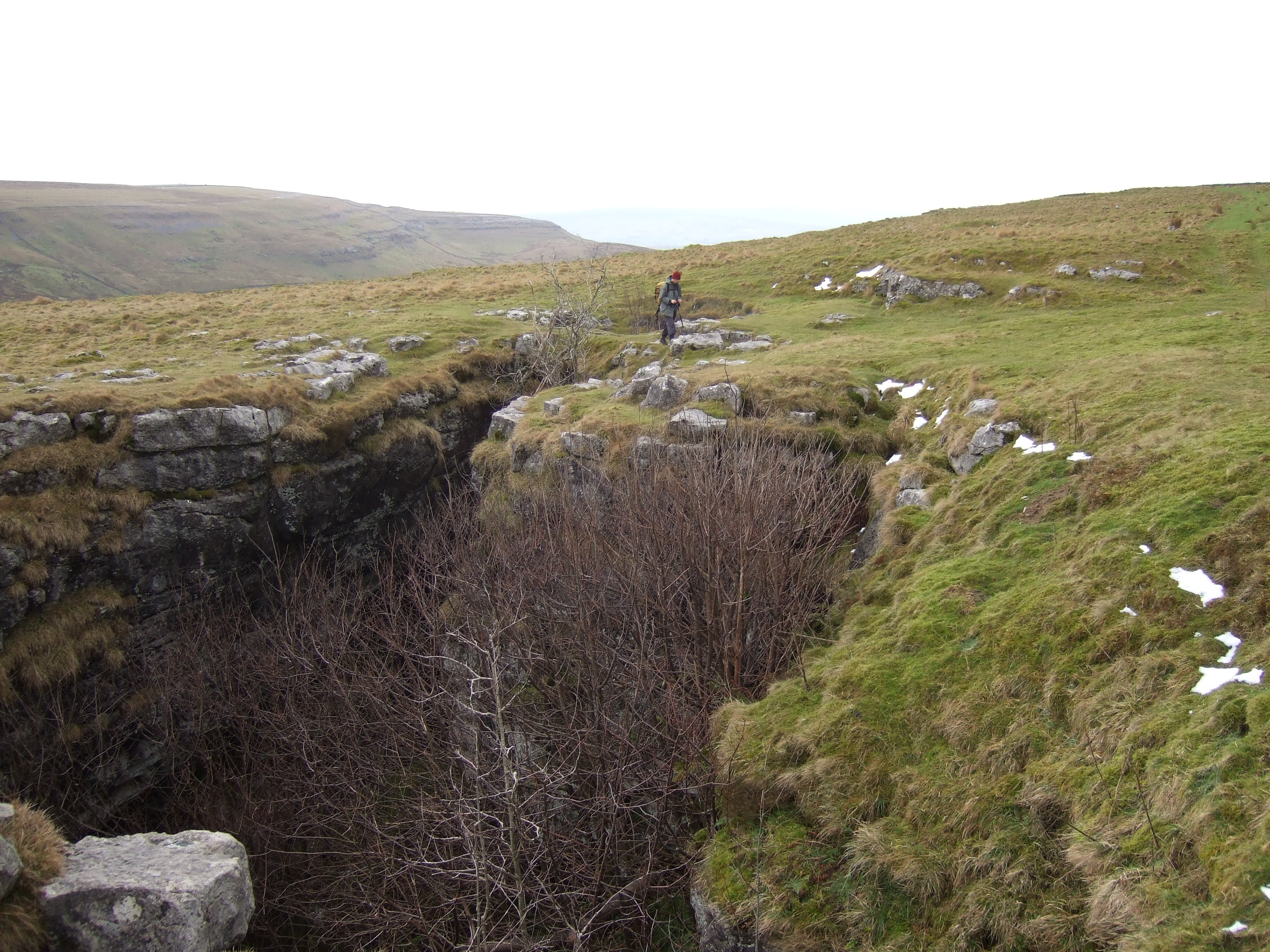 Rowton Pot entrance, a Karst phenomenon in North Yorkshire, England.